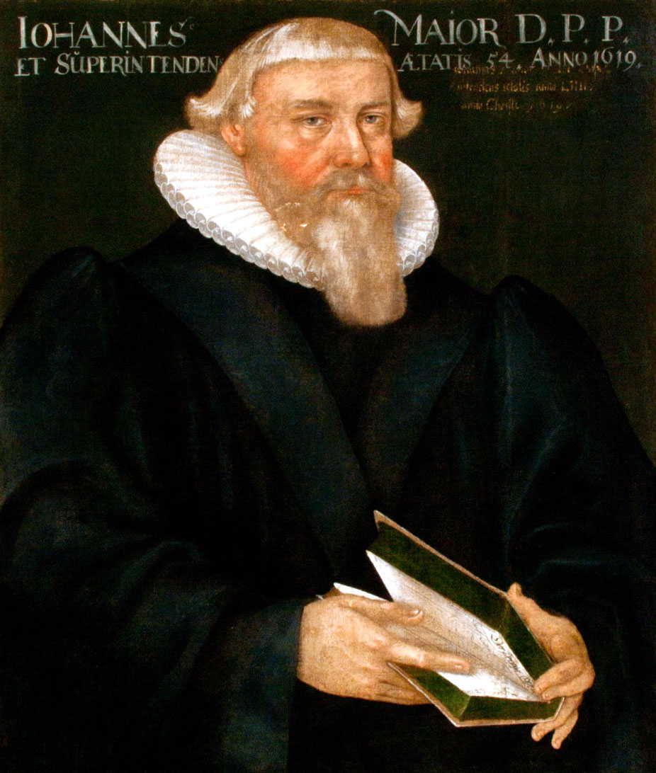 Johannes Major (1564-1654) German Protestant theologian